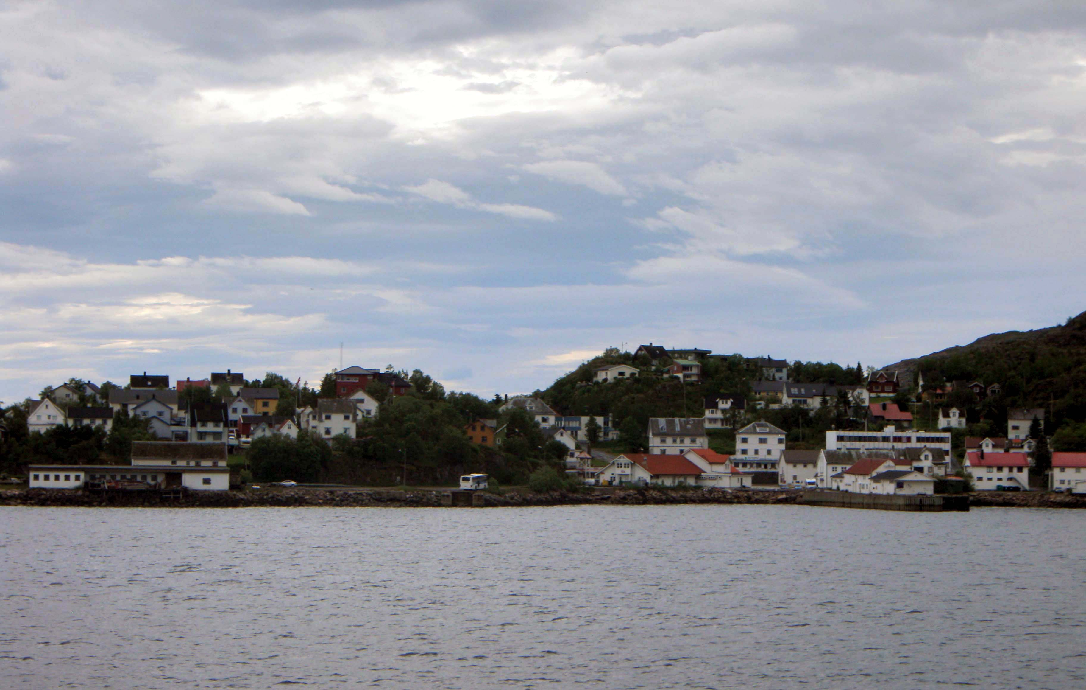 The village of Lødingen in Nordland, Norway, viewed from a ferry.